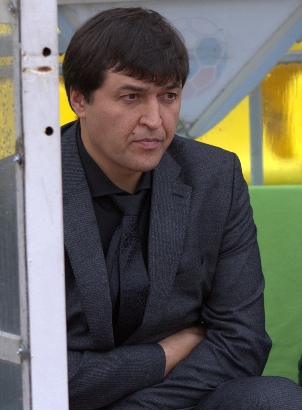 Yuri Utkulbayev coaching FC Neftekhimik Nizhnekamsk in a game against FC Kuban Krasnodar.